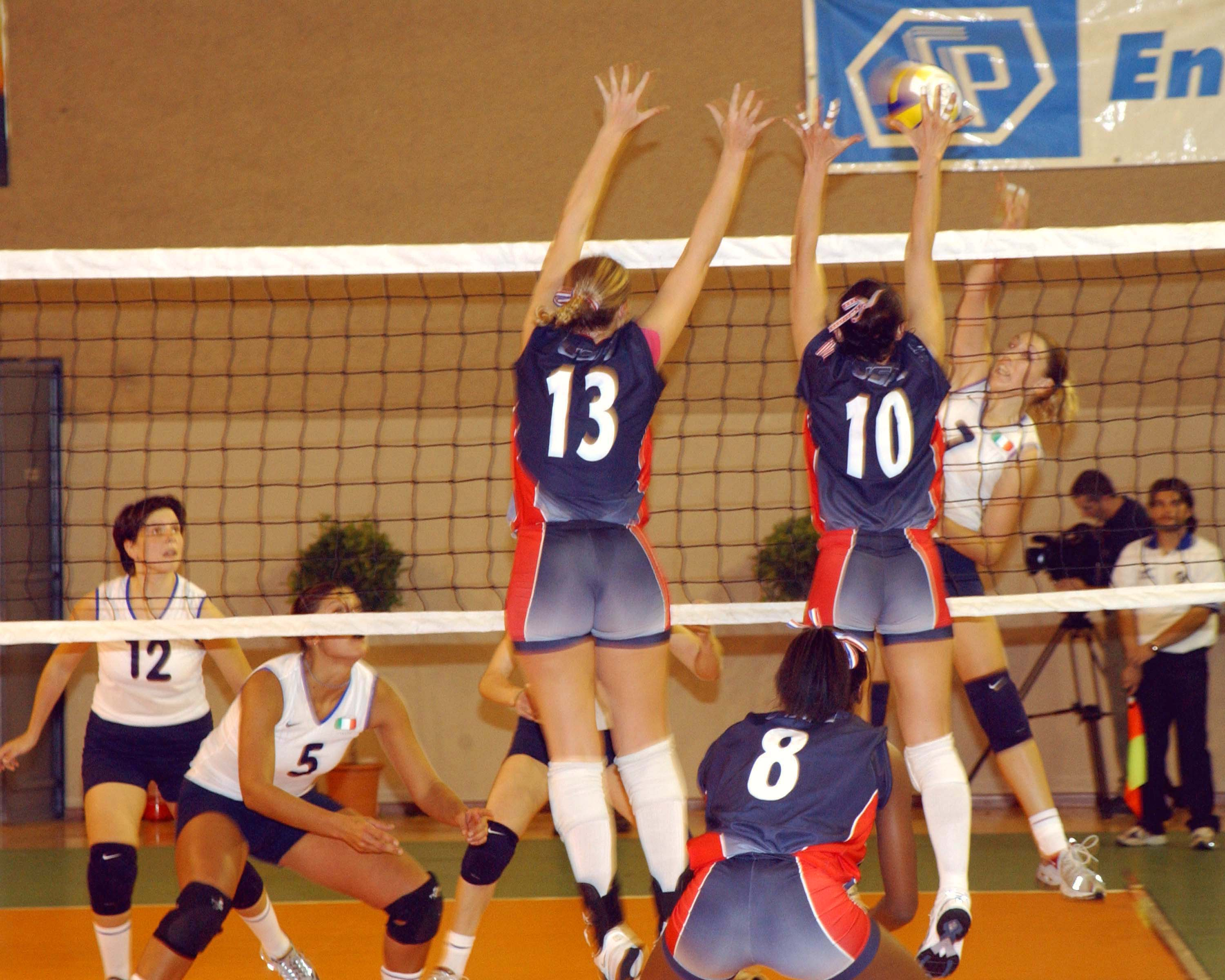 Members of U.S. Armed Forces Women's Volleyball team blocks an Italian player from scoring during the 3rd Military World Games held in Catania, Sicily. The Military World Games consists of 86 participating countries and were designed to promote "Peace through Sports."